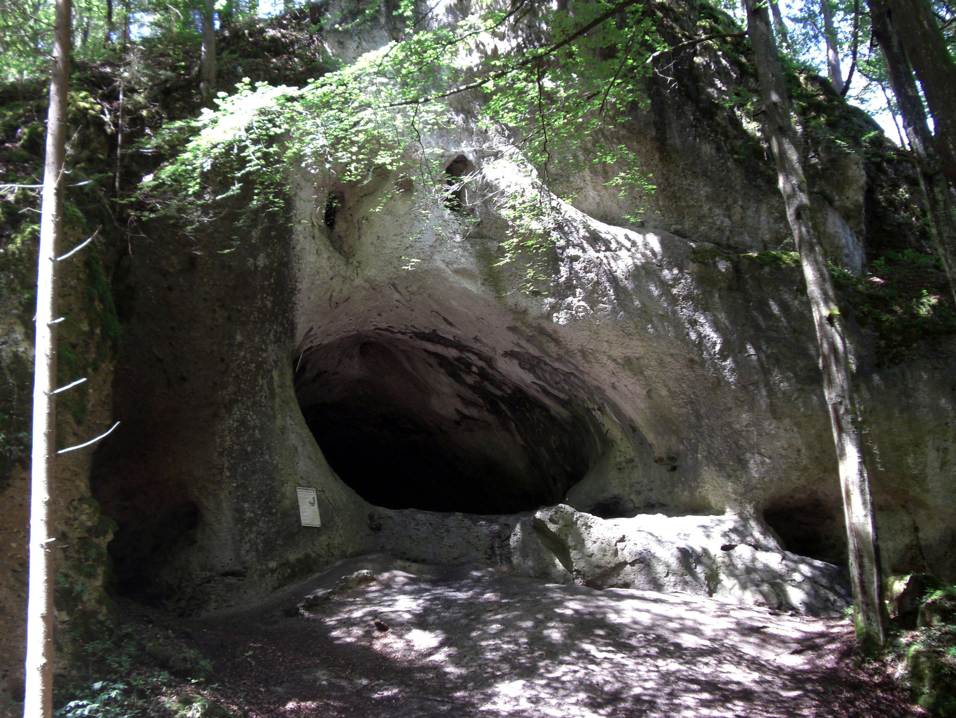 Hasenlochhöhle